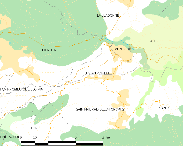 Map of French municipality